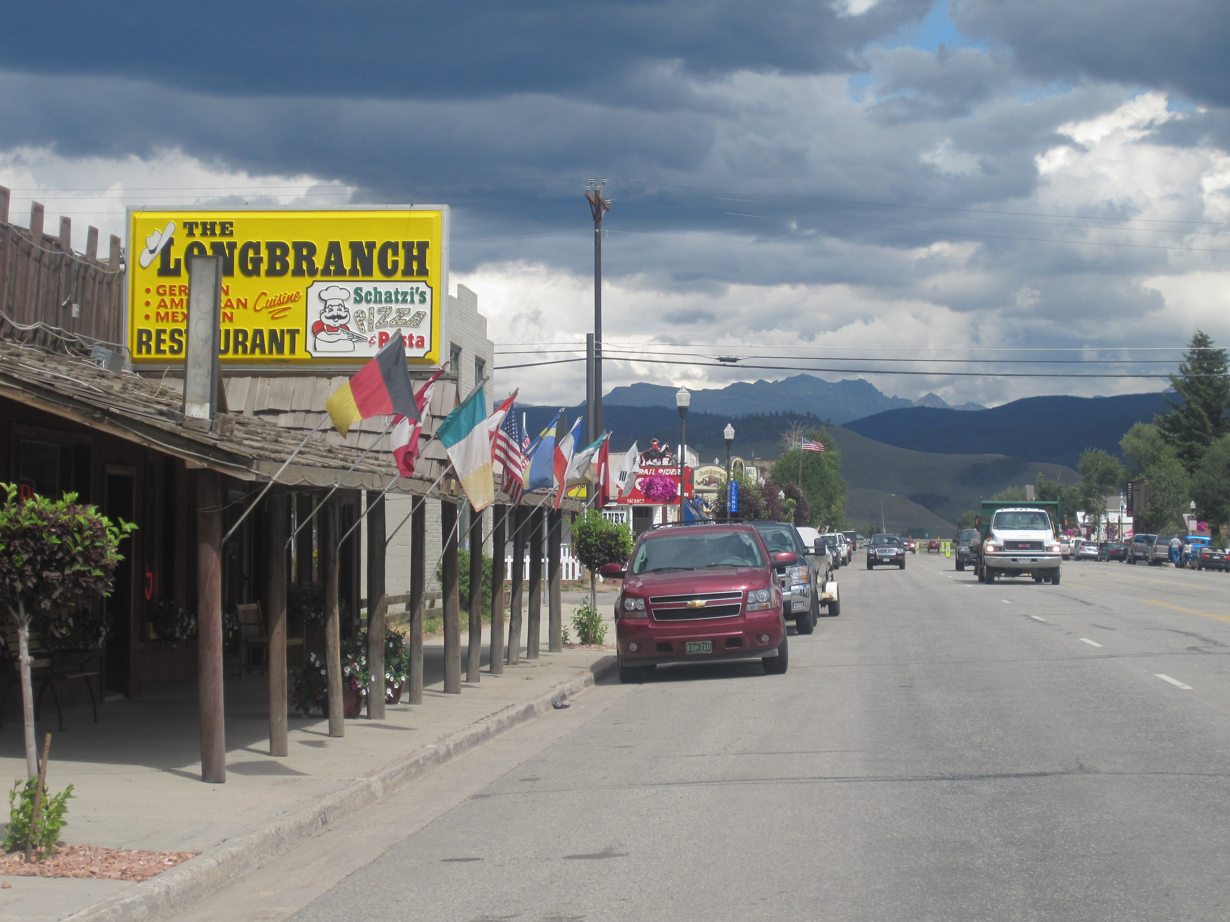 I took photo with Canon camera in Granby, CO.